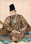 Kikuchi Takefusa